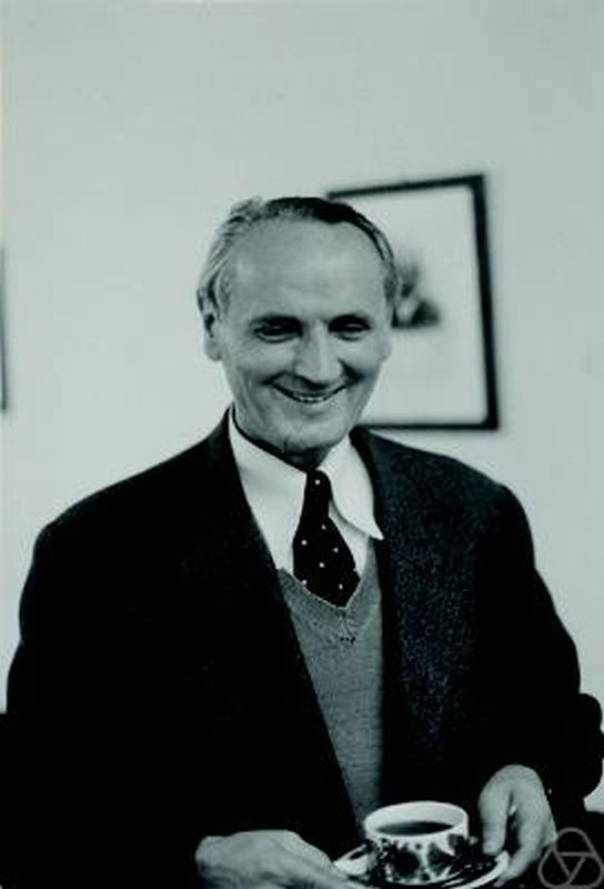 Djuro (Georg) Kurepa, Erlangen 1976